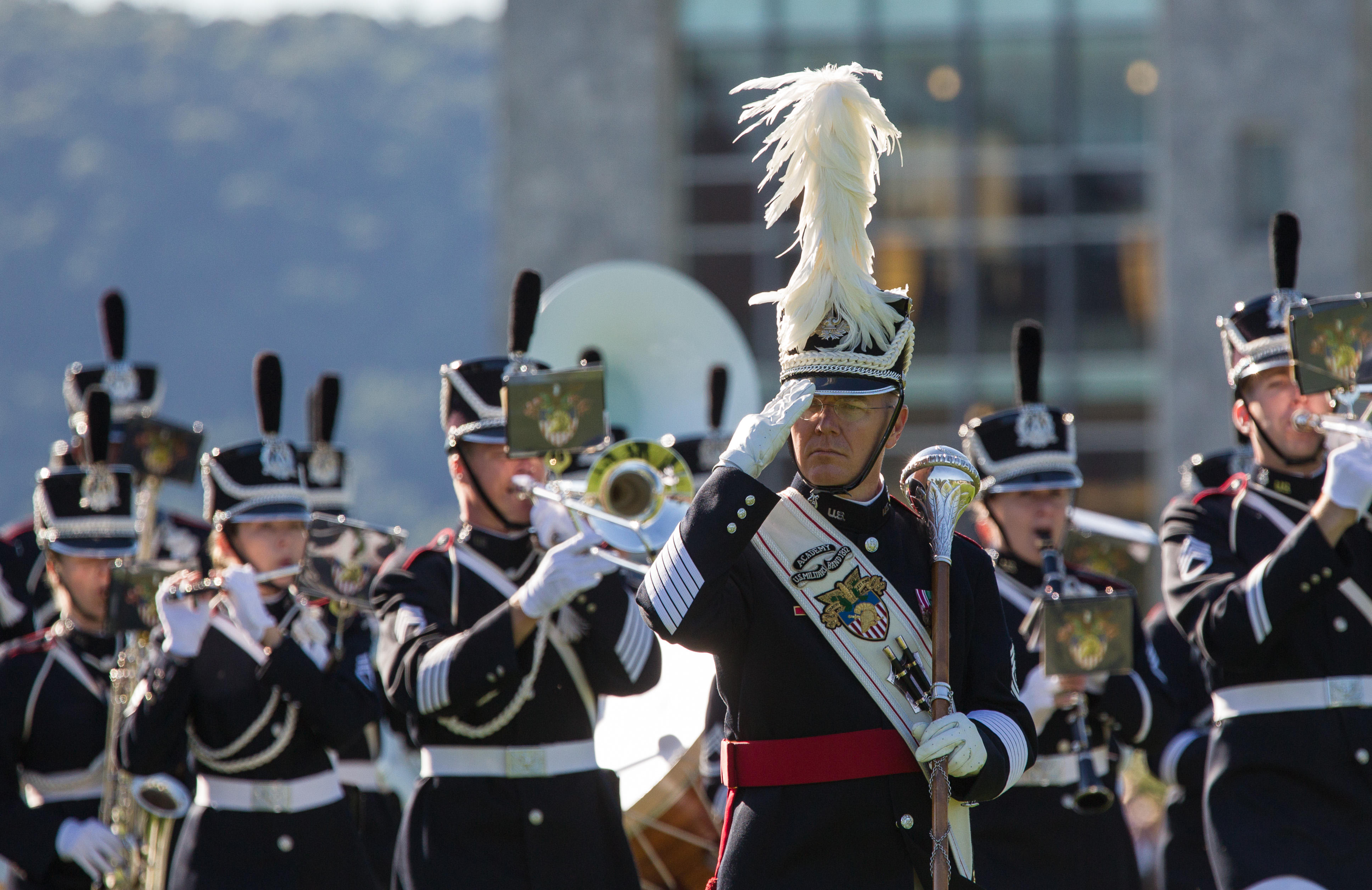 The West Point Band provides the music for the reviews that take place on The Plain at West Point including those on football Saturdays. Sgt Major Jones salutes the reviewing party as the band passes in review.